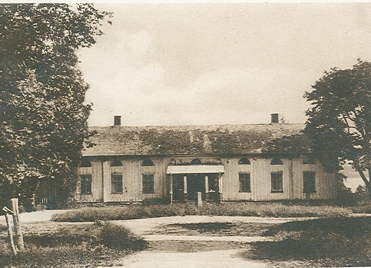 The old countryhouse Öjervik in Värmland, Sweden. It burned down in 1947.